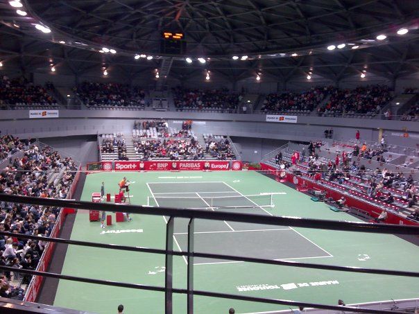 The Toulouse sport complex during the French Masters series